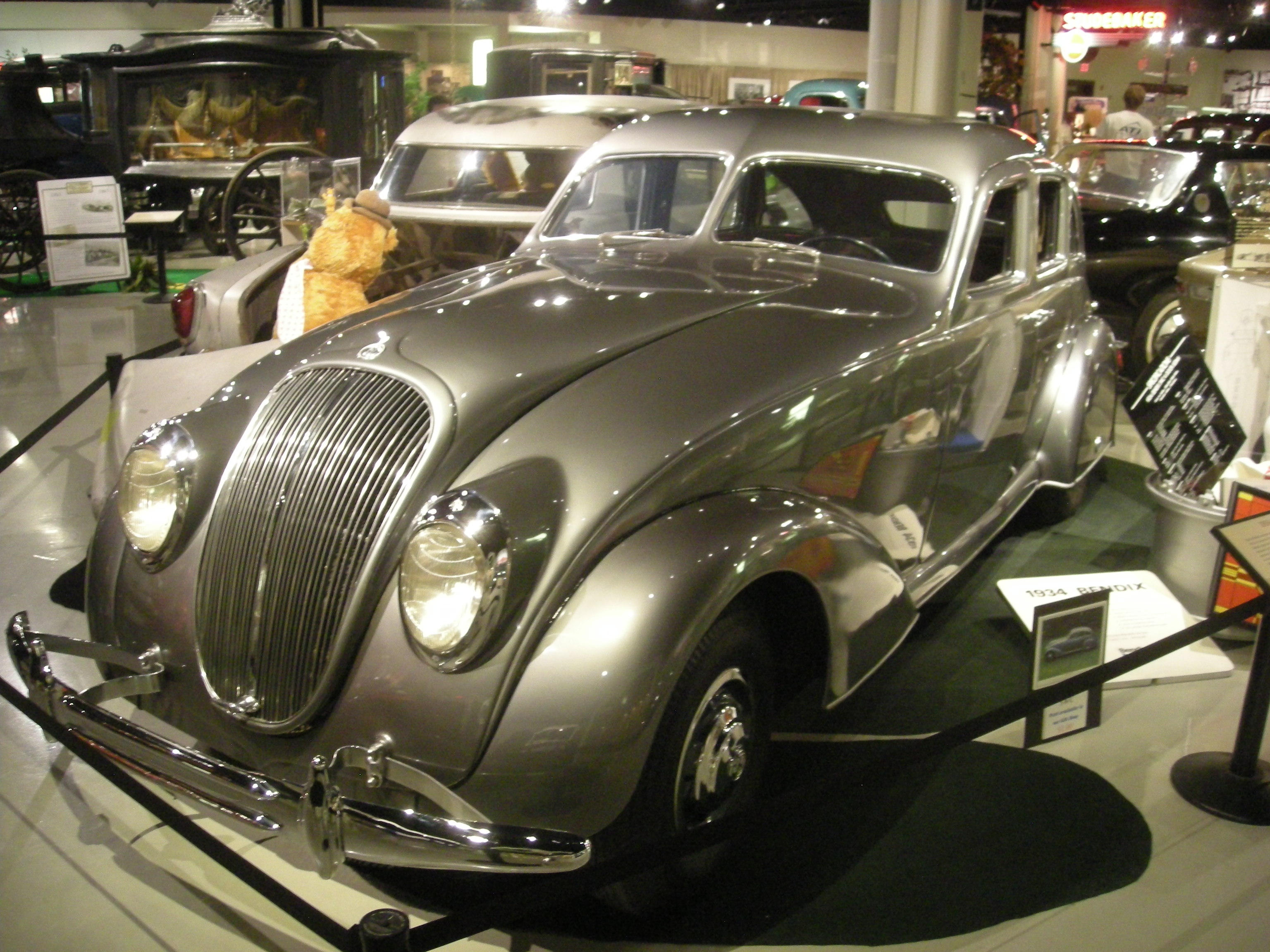 The 1934 Bendix SWC at the Studebaker National Museum in South Bend, Indiana (United States).